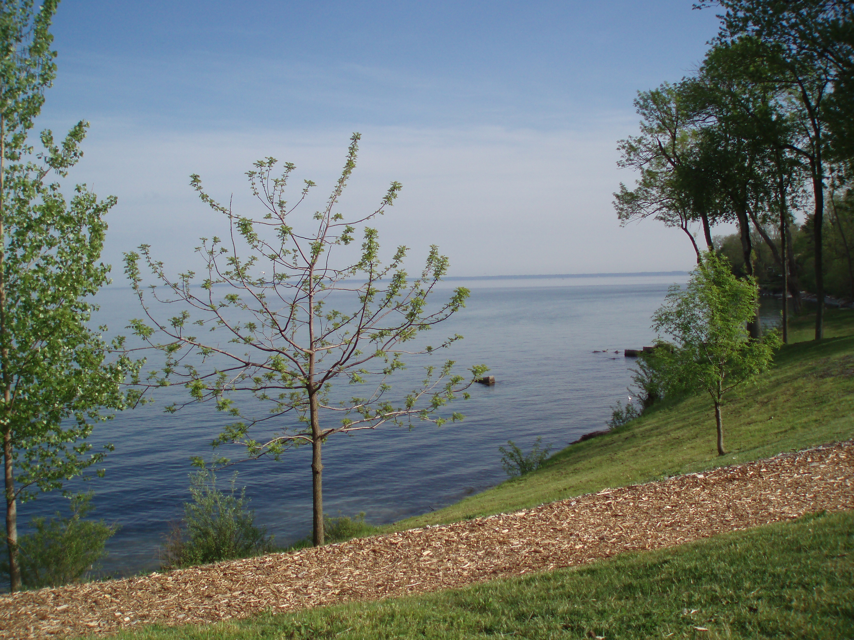 Appleby College